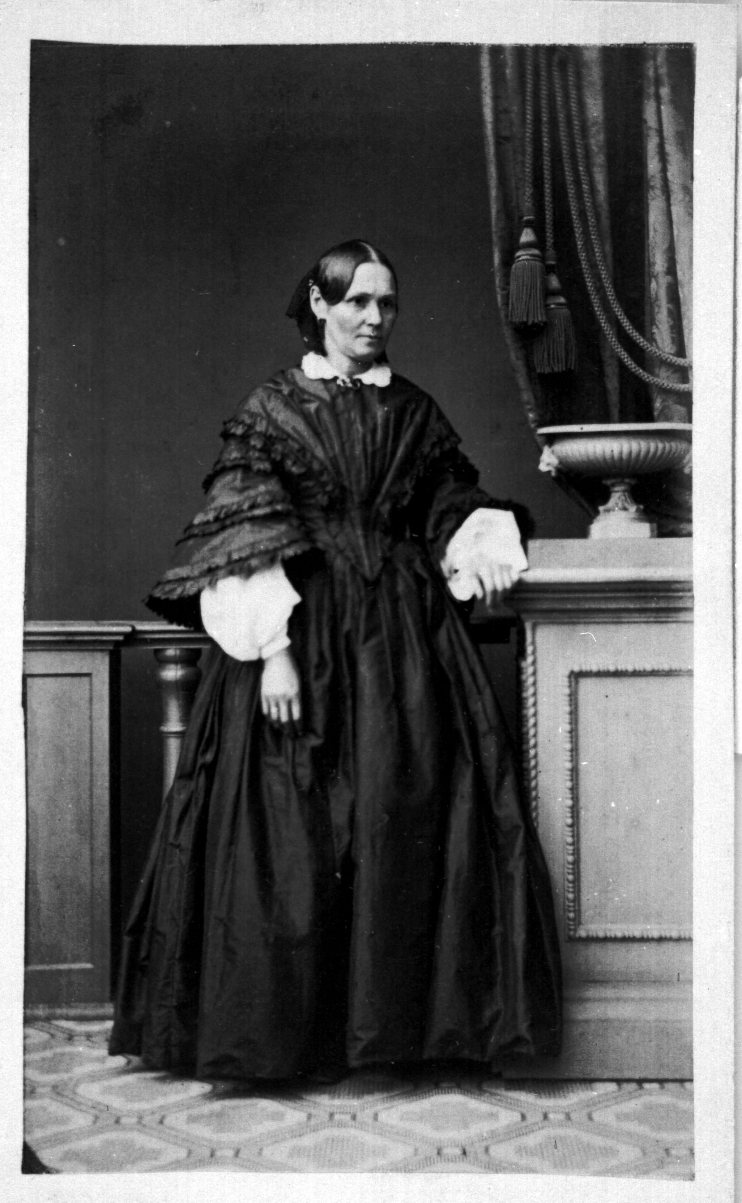 Artist: unknown Date/place: unknown Subject: Adelina Hagerup (Nina Grieg's mother) Medium: photographic positive, B&W Notes: none Persistent URL: [#//bergenbibliotek.no/digitale-samlinger//engelsk/-intro-eng” Original belongs to the Edvard Grieg Archives at Bergen Public Library] Original reference: EGM0343